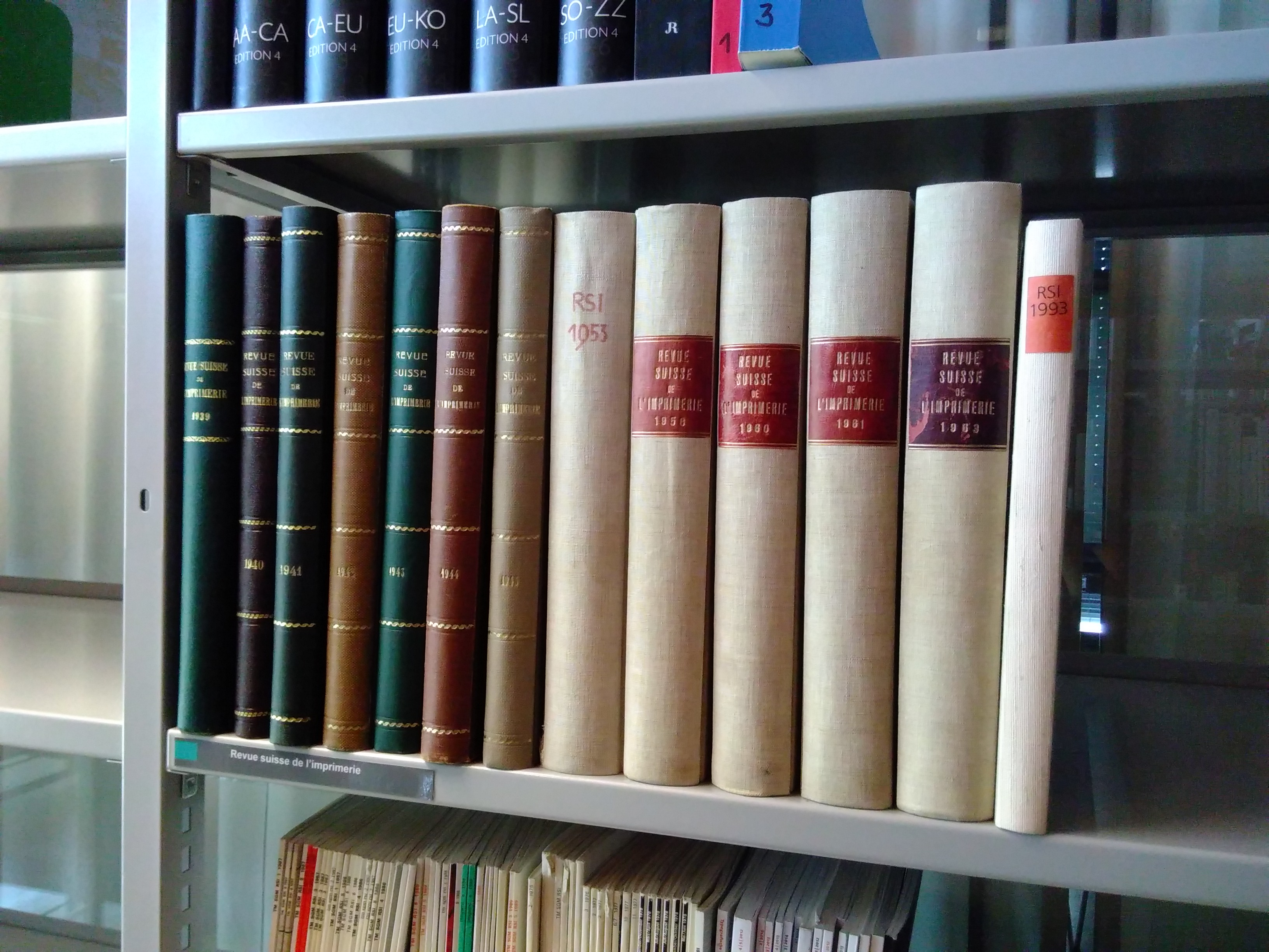 Several volumes of Revue Suisse de l'Imprimerie, on the shelves of the Eracom/EPSIC school library, Lausanne.